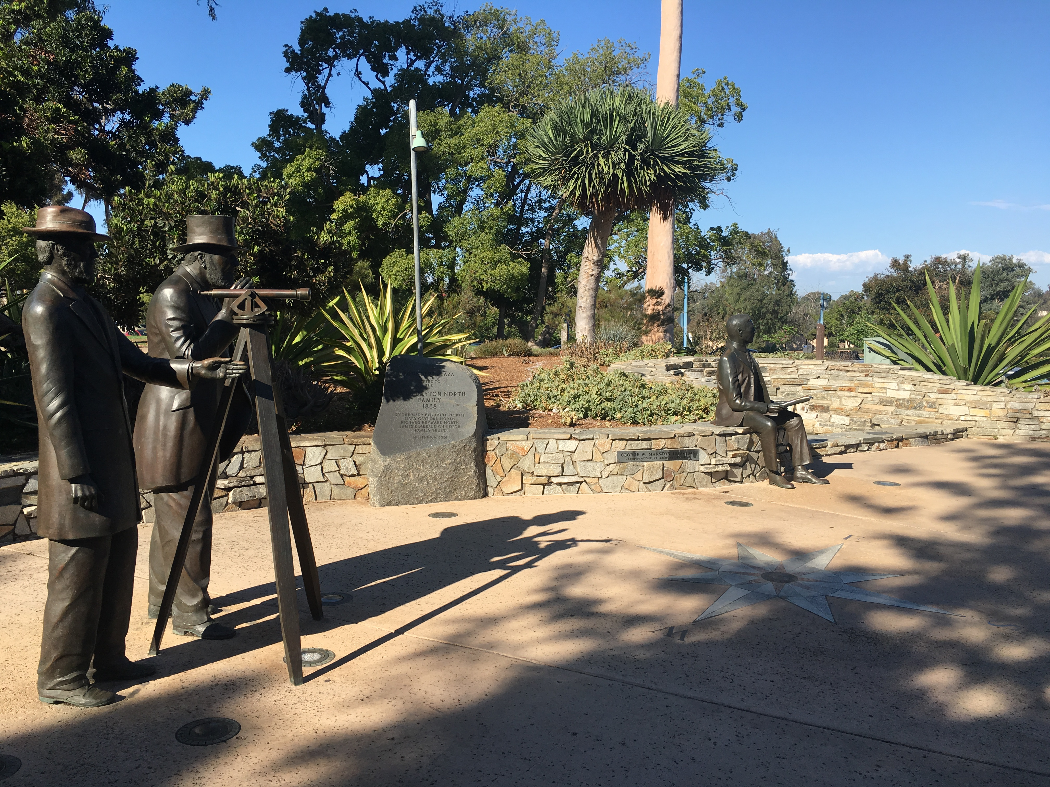 Three statues - of Ephraim Morse, Alonzo Horton, and George White Marston, respectively - located on the north side of Sefton Plaza, also known as Founders' Plaza, in Balboa Park, San Diego, California.